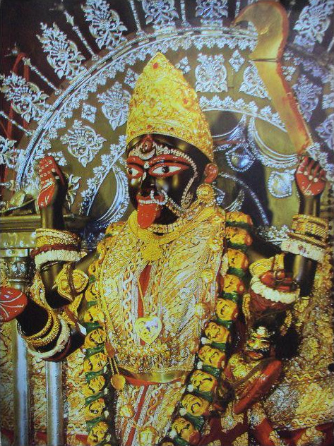 The Kali idol @ Dakshineshwar